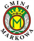 New Coat of Arms of Gmina Markowa, Poland